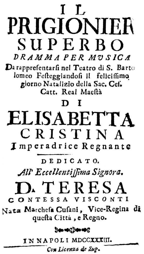 Giovanni Battista Pergolesi - Il prigionier superbo - titlepage of the libretto - Naples 1733